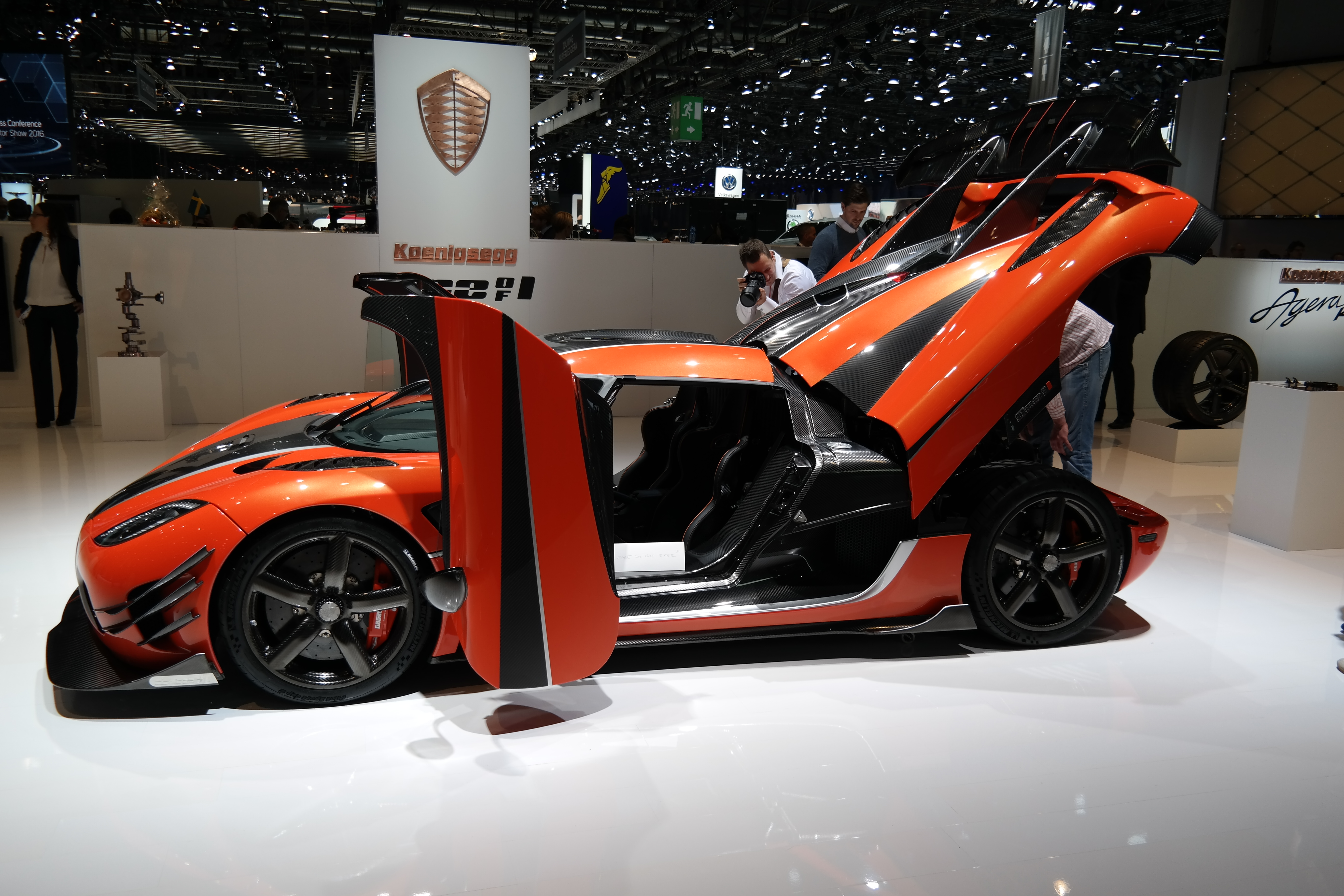 Geneva Motor Show 2016 (photo taken on the first press day)